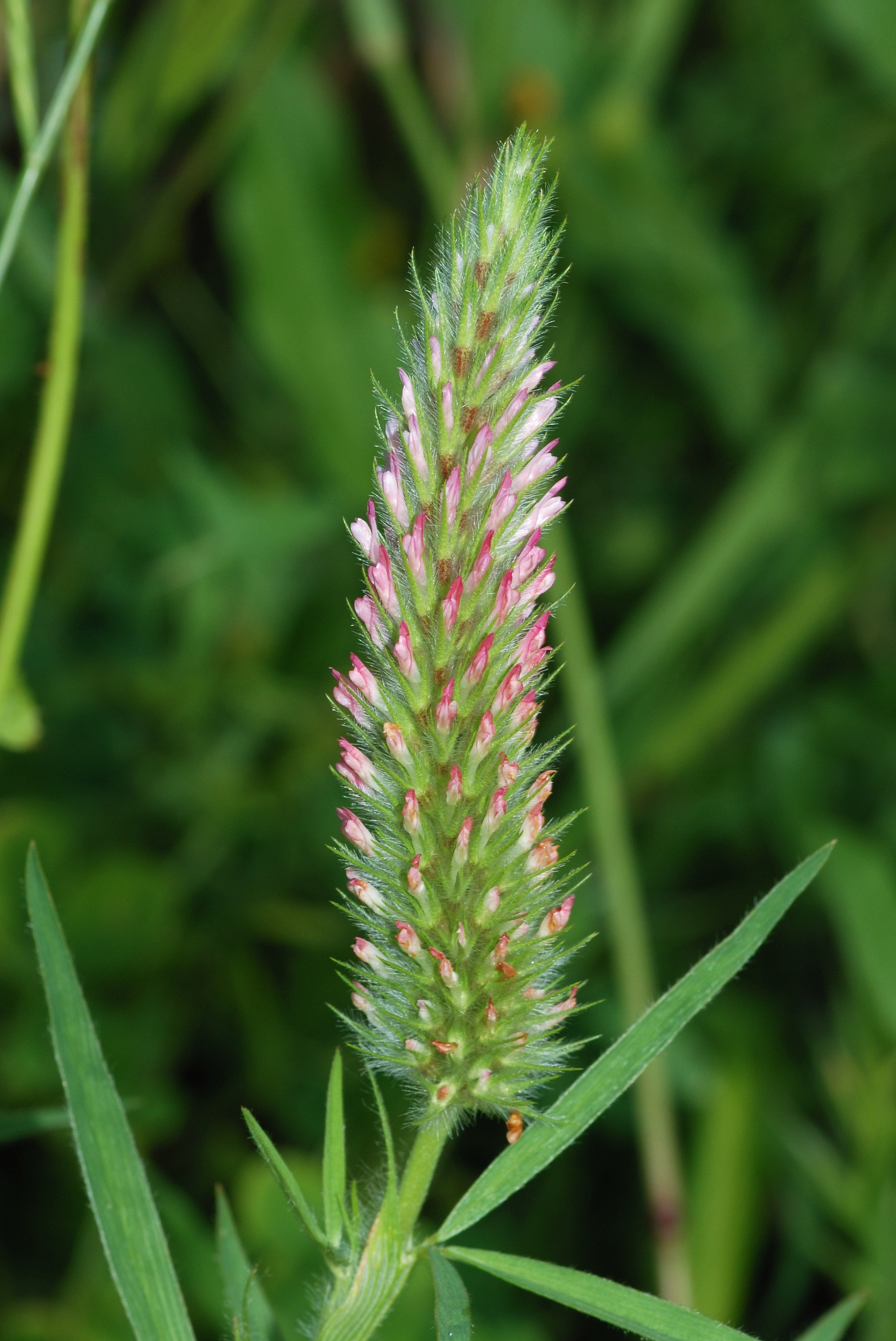 Trifolium angustifolium flower